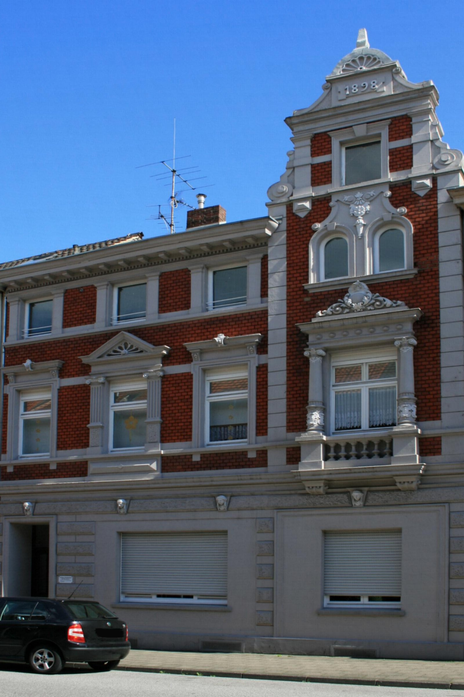 Cultural heritage monument No. V 002 in Mönchengladbach